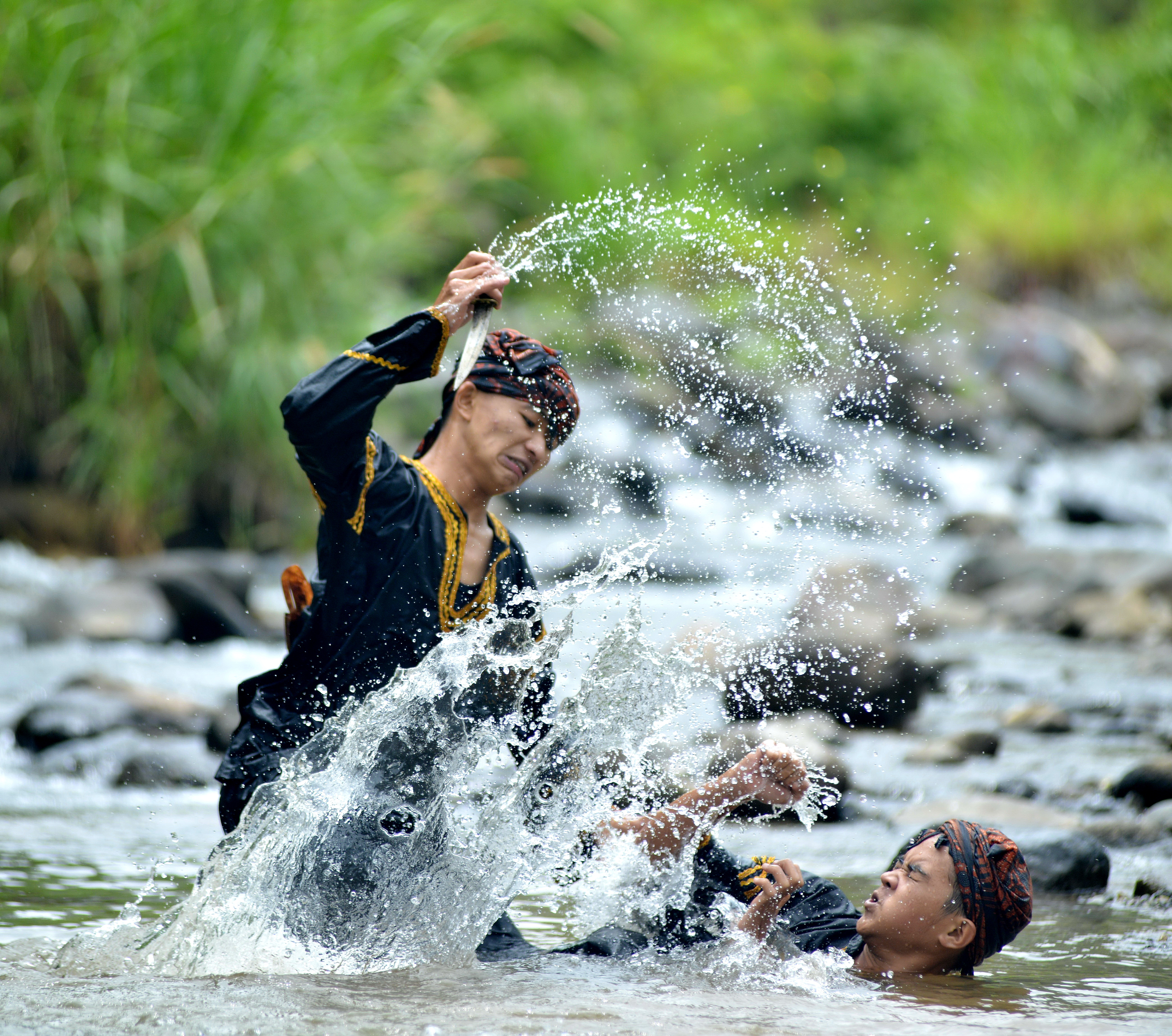 Silek harimau, traditional martial arts of the Minangkabau people in West Sumatra, Indonesia. These men are trained fighters, DO NOT try this at home!